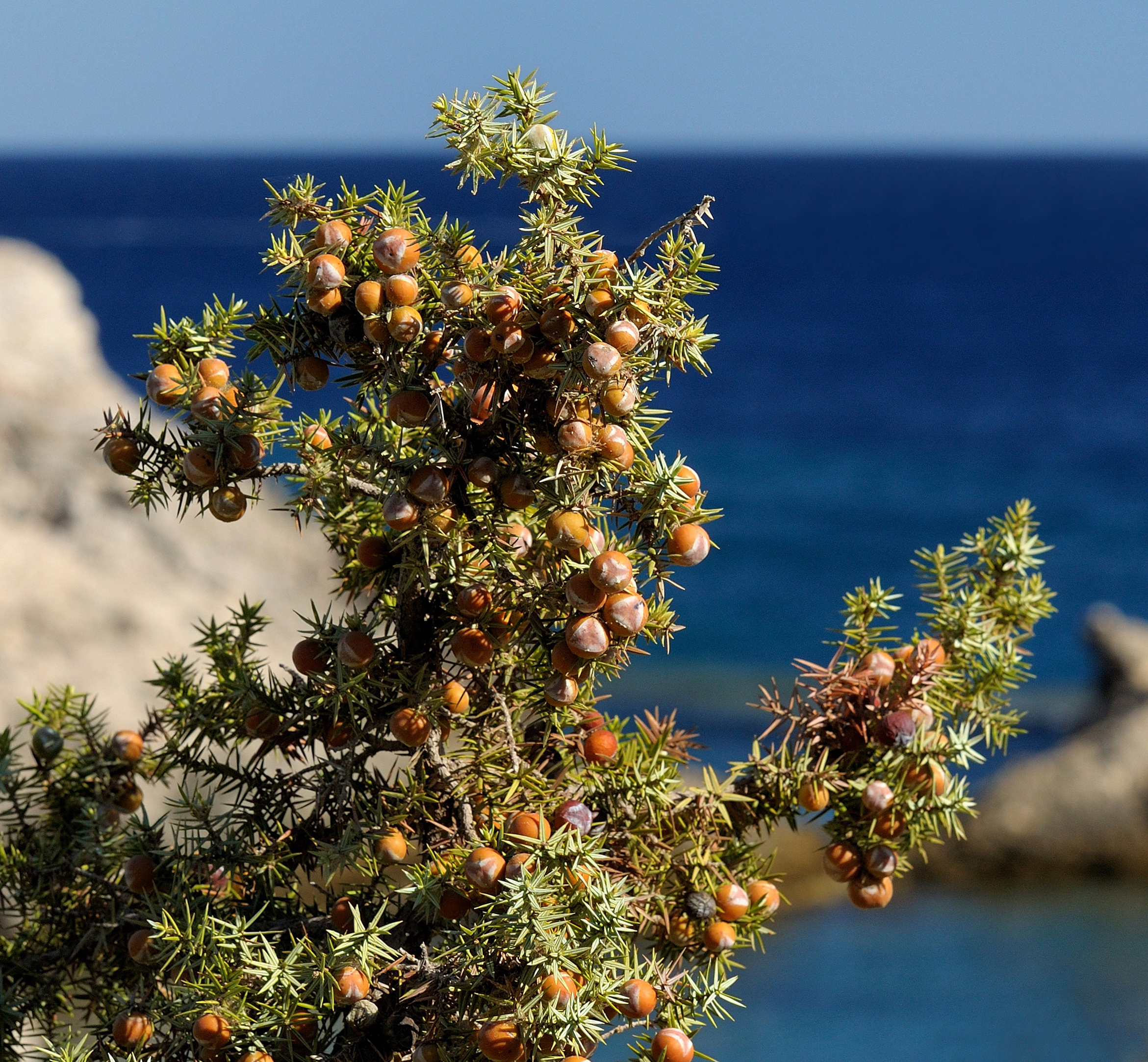 Juniperus macrocarpa. Rhodes. Greece